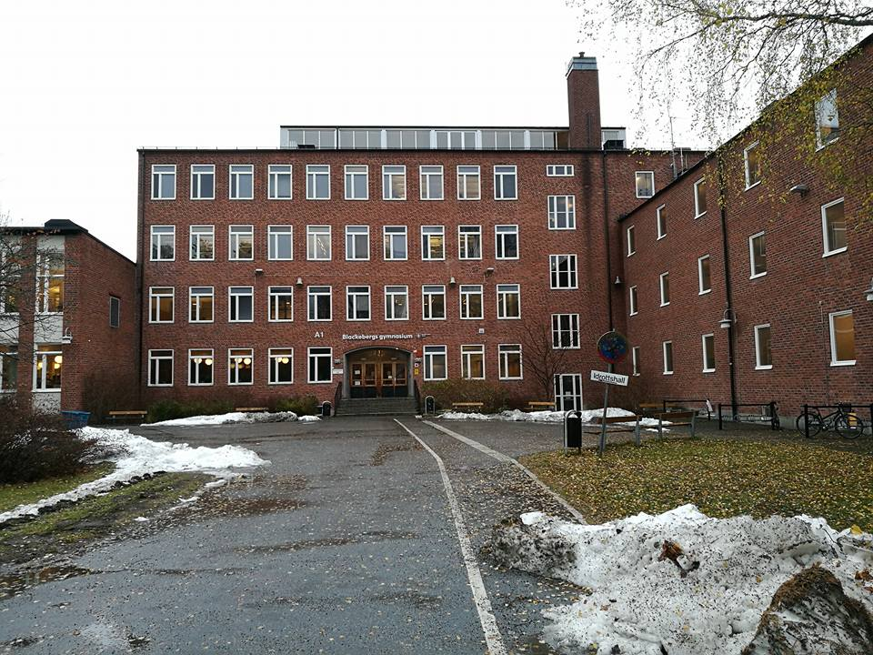 Blackebergs gymnasium Wergelandsgatan 42 168 48 Bromma Sweden